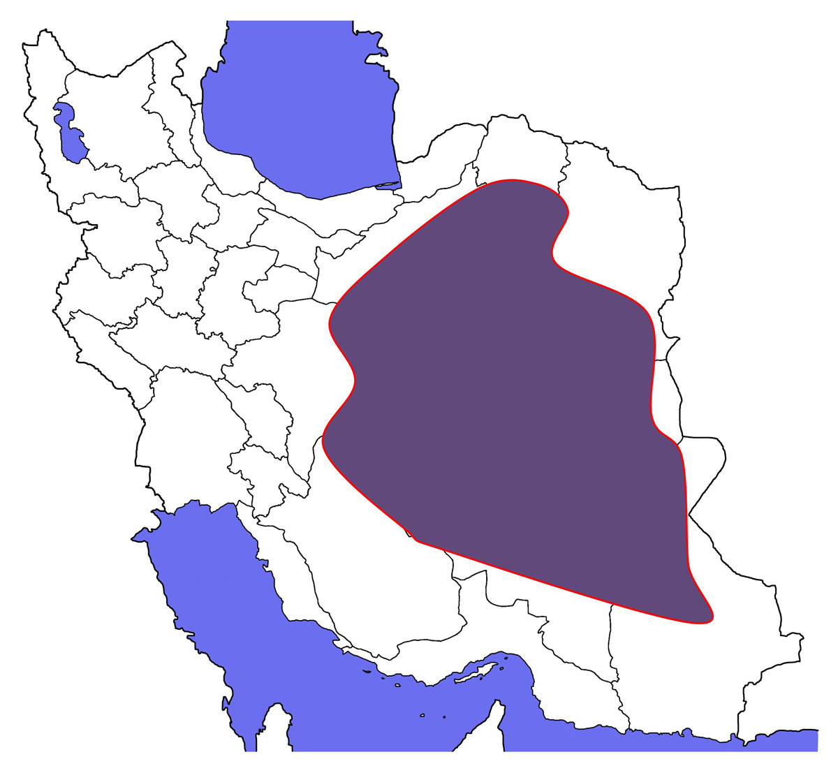 Distribution Map